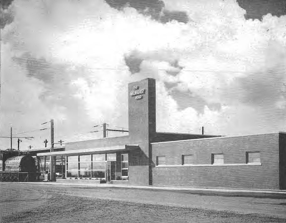 The exterior of the Milwaukee Road's Tideflats station in Tacoma, Washington, which opened in 1954 and closed in 1961. A Milwaukee Road class EP-2 is at left.